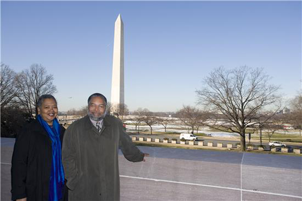 February 15, 2006 Director of the National Museum of African American History and Culture (NMAAHC), Lonnie Bunch, points to the site where the new NMAAHC museum will be built on the National Mall, with Deputy Director, Kinshasha Holman Conwill. The Washington Monument is visible beyond the site